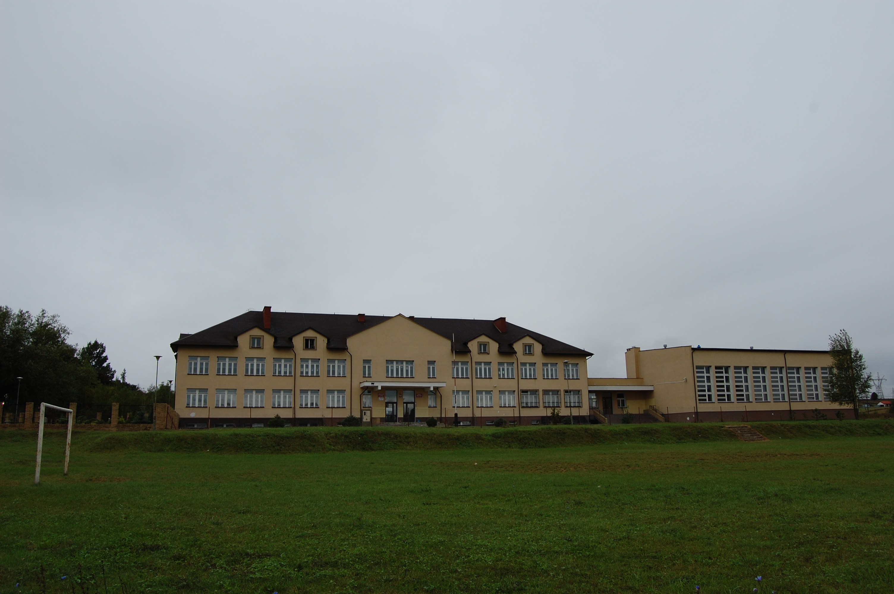 Pliszczyn, school